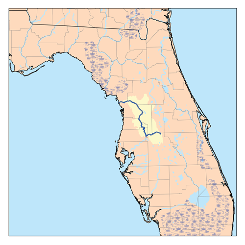 This is a map of the Withlacoochee River watershed. I, Karl Musser, created it based on USGS data.